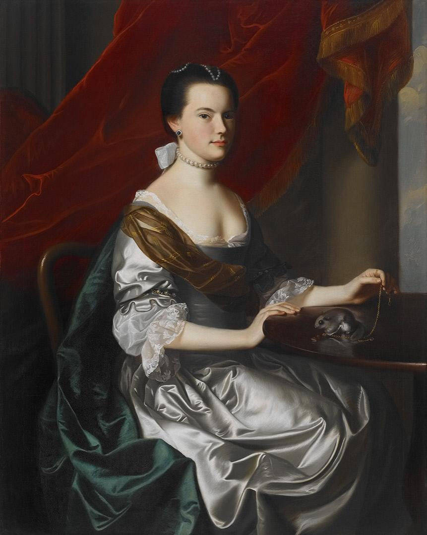 Oil on canvas